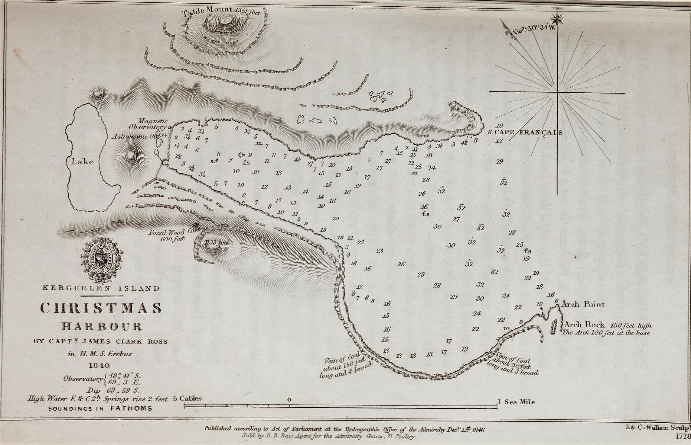 A voyage of discovery and research in the southern and Antarctic regions, during the years 1839-43 /